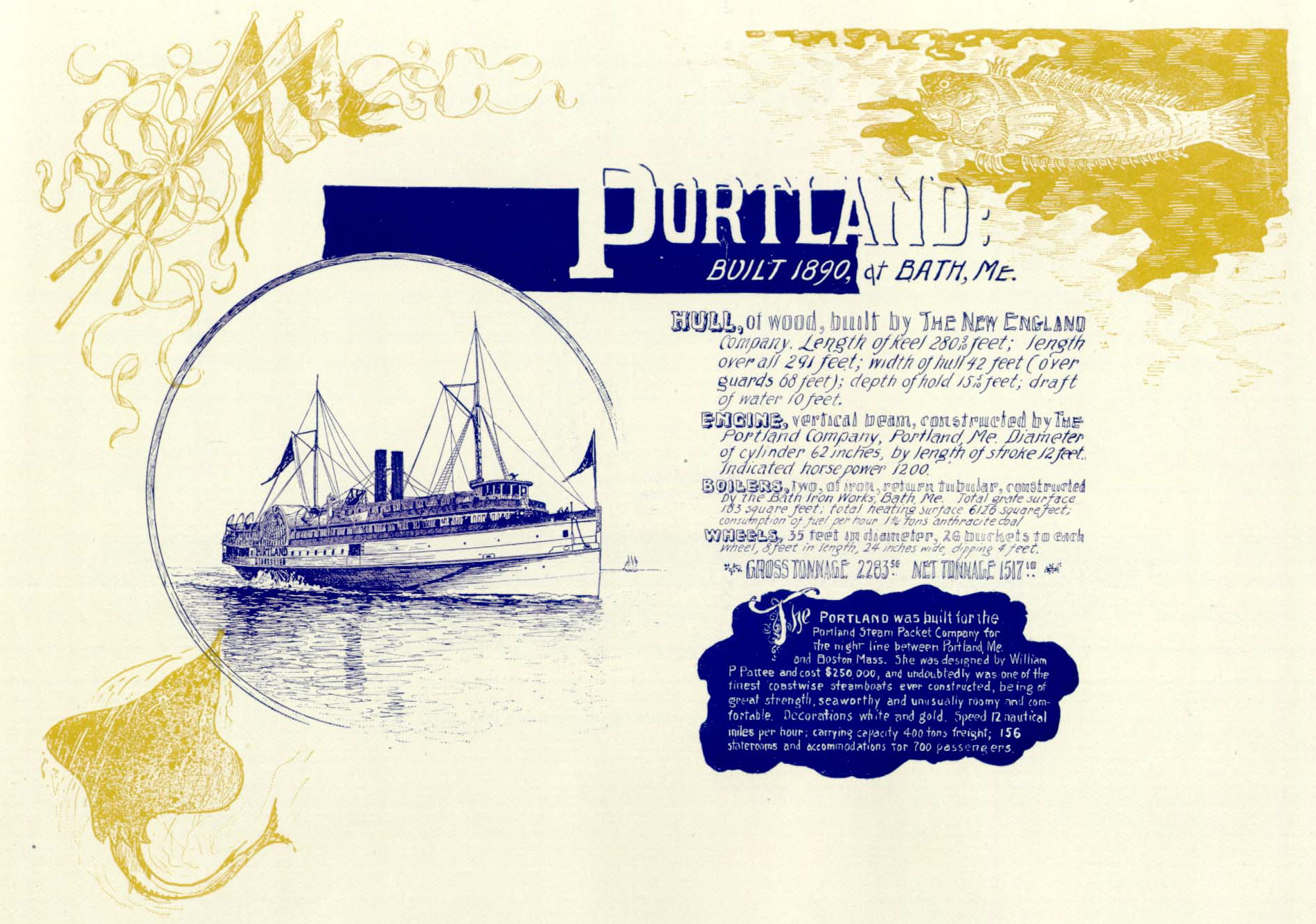 Portland, sidewheel steamship of the New England coast, sunk in the Portland Gale, November 26, 1898